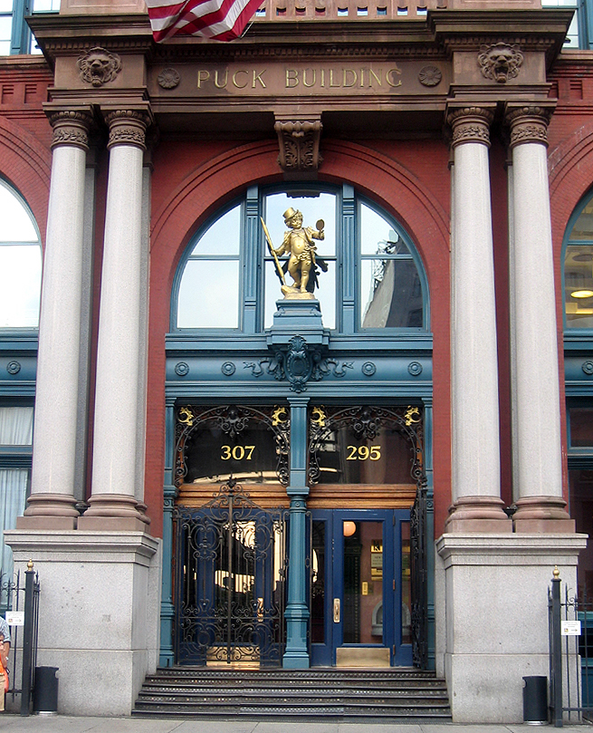 New York University's Puck Building at 295 Lafayette Street on the corner of East Houston Street in New York City. New owner New York University and local residents continue to call it The Puck Building, the name it was landmarked under decades ago. It is never called NYU Puck Building. The file name is in error.